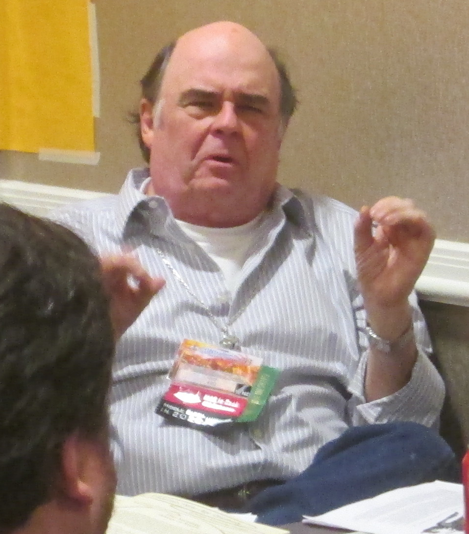 CONtraflow V/DeepSouthCon 53 sci-fi convention, Kenner Louisiana. History of New Orleans area fandom panel, Guy H Lillian III.